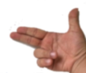 The gesture of number 8 in coastal South China (Fujian Province and Guangdong Province)